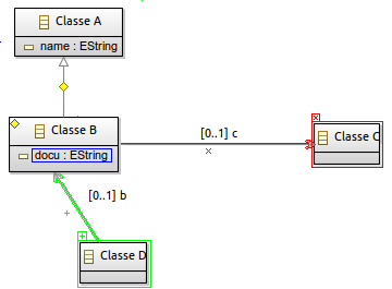 Screenshot of the open source software EMF Compare